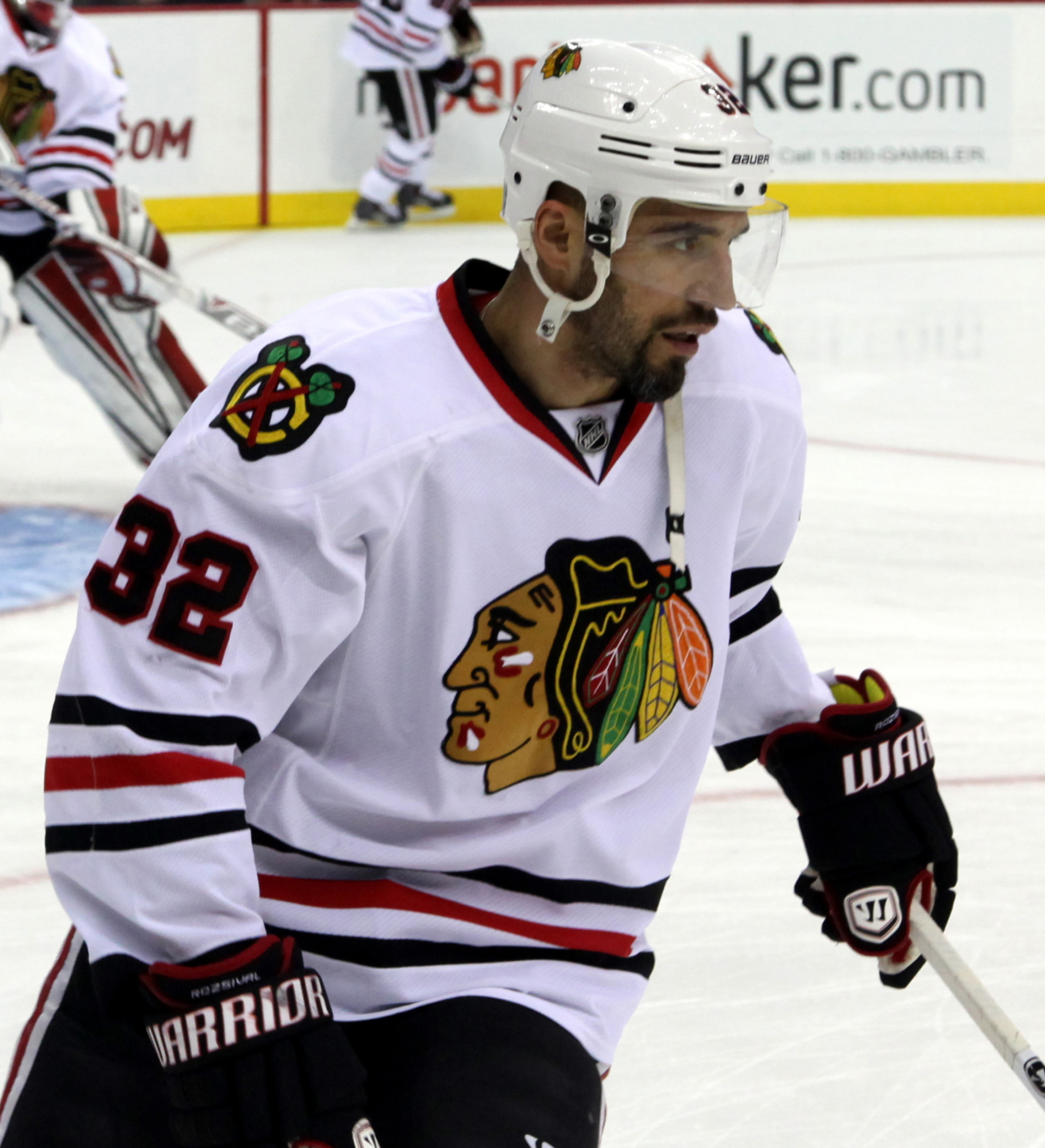 Michal Rozsival in December 2014.